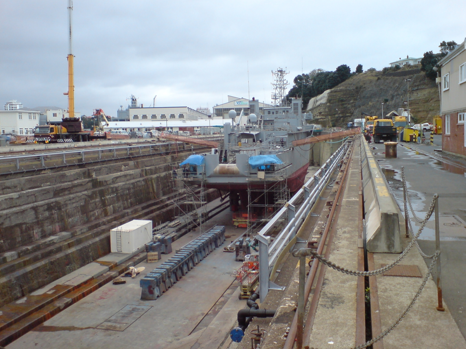 The HMNZS Resolution being overhauled in the Calliope Dock at the Devonport Naval Base in Auckland, New Zealand. Once the largest drydock of the British Empire in the Southern Hemisphere.